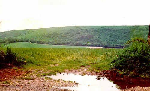 Watership Down, scene of the novel